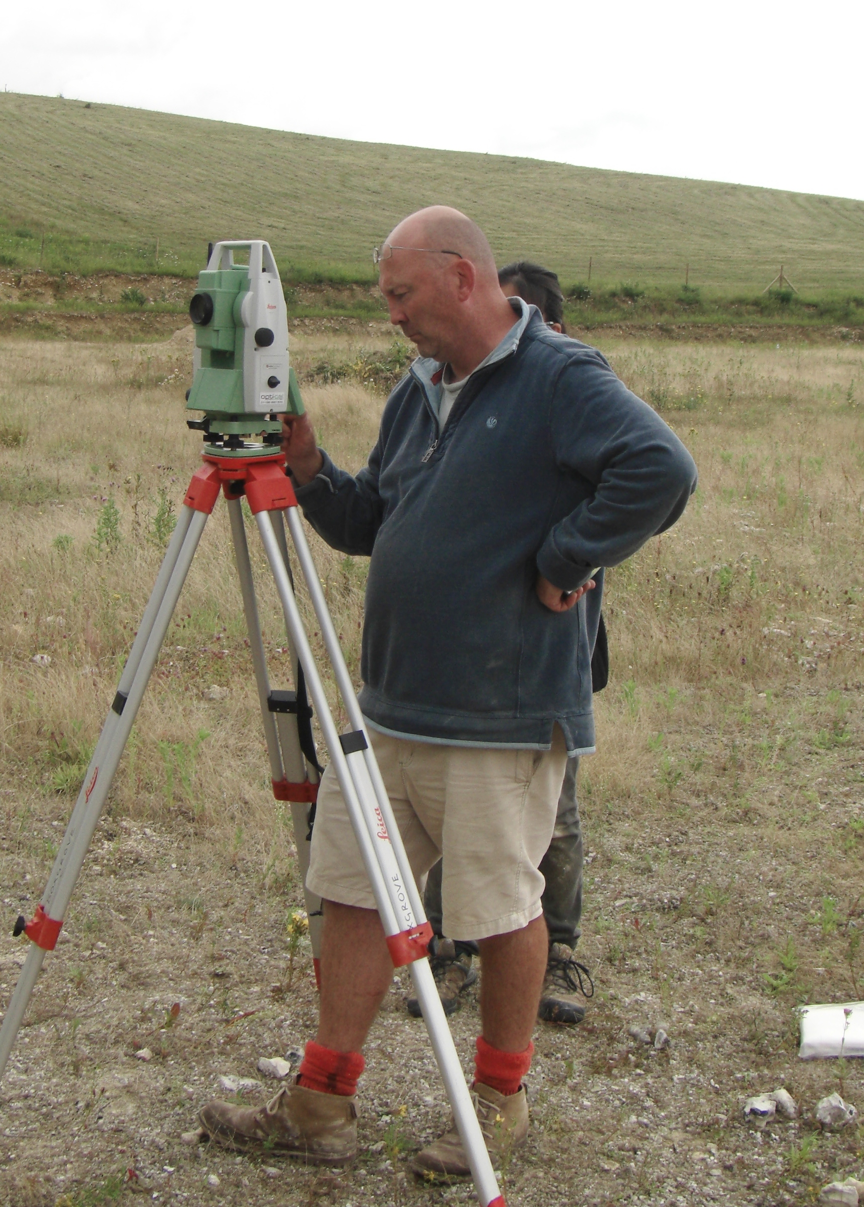 English archaeologist Mark B. Roberts ("MBR"), here using a total station at the Boxgrove site. August 2011.